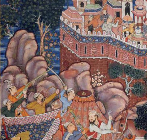 Mughal musket and siege